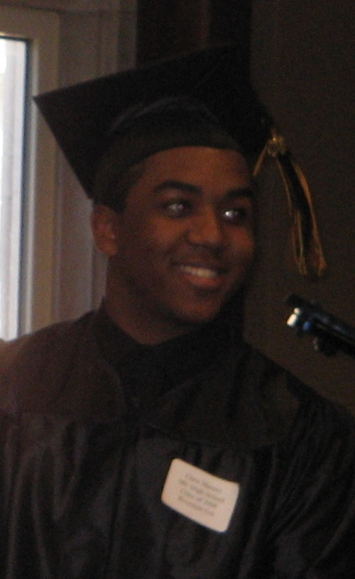 Christopher Massey graduating High School. He should have received the diploma previously.